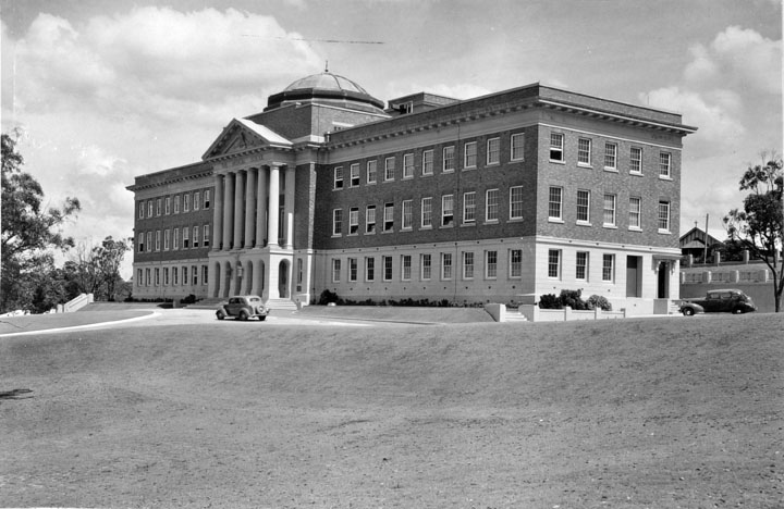 University of Queensland Medical School, Herston, Brisbane. (Alternative name is Mayne Medical School. Located at 288 Herston Road, Herston.)